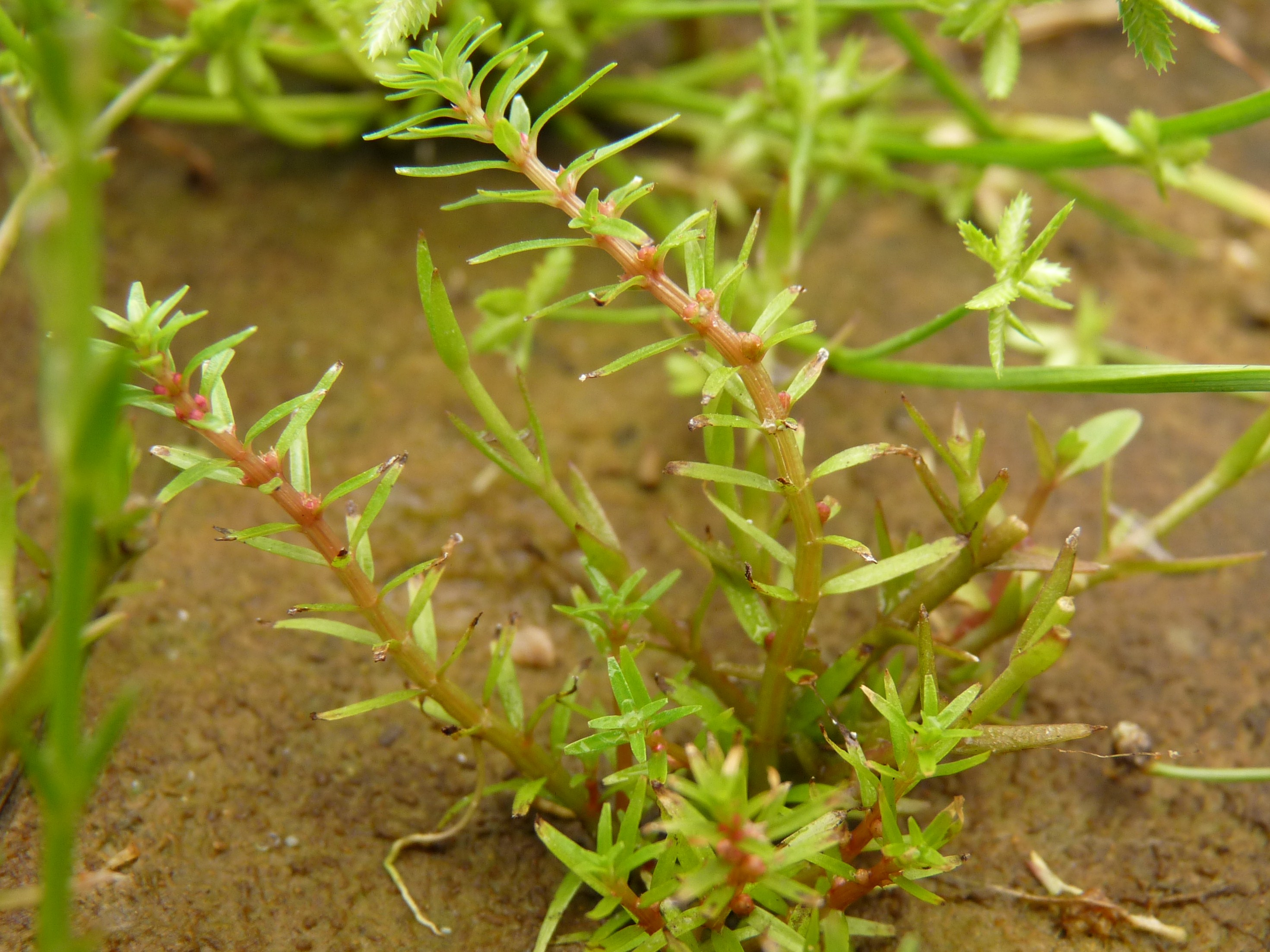 Rotala pusilla